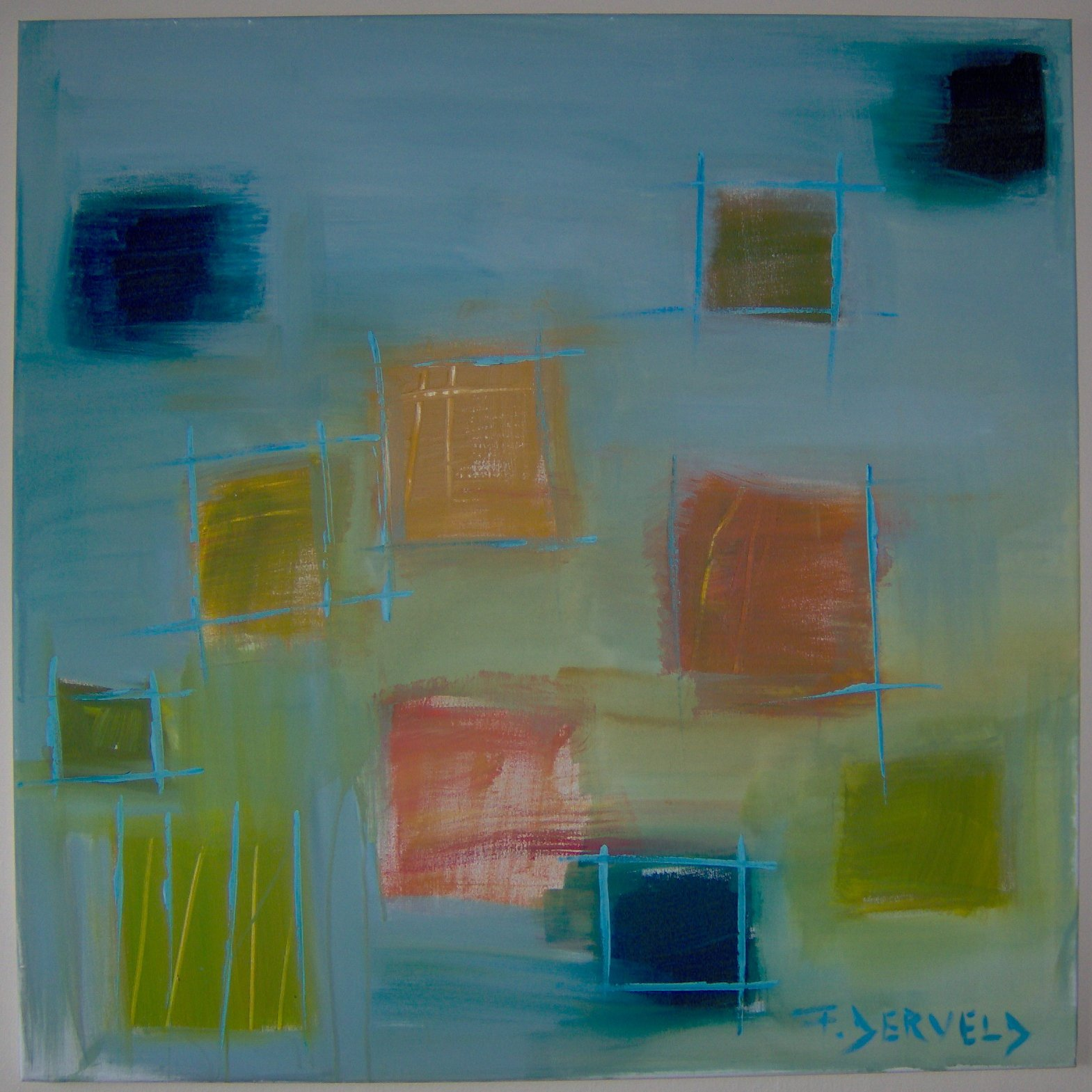 Painting, Squares